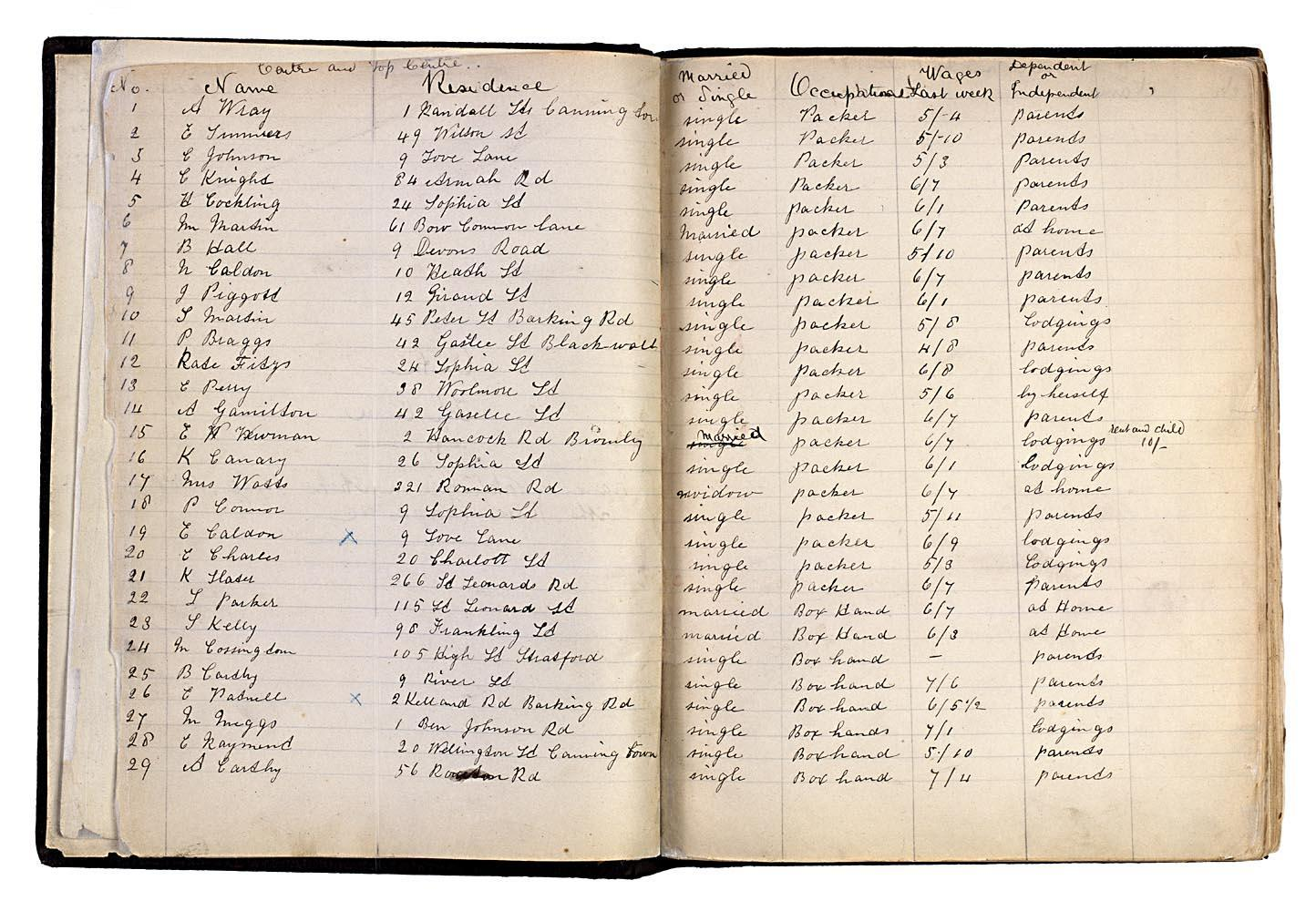 Page from the Strike register of the striking matchworkers at Bryant & May, London, in July 1888 (The image has been modified)